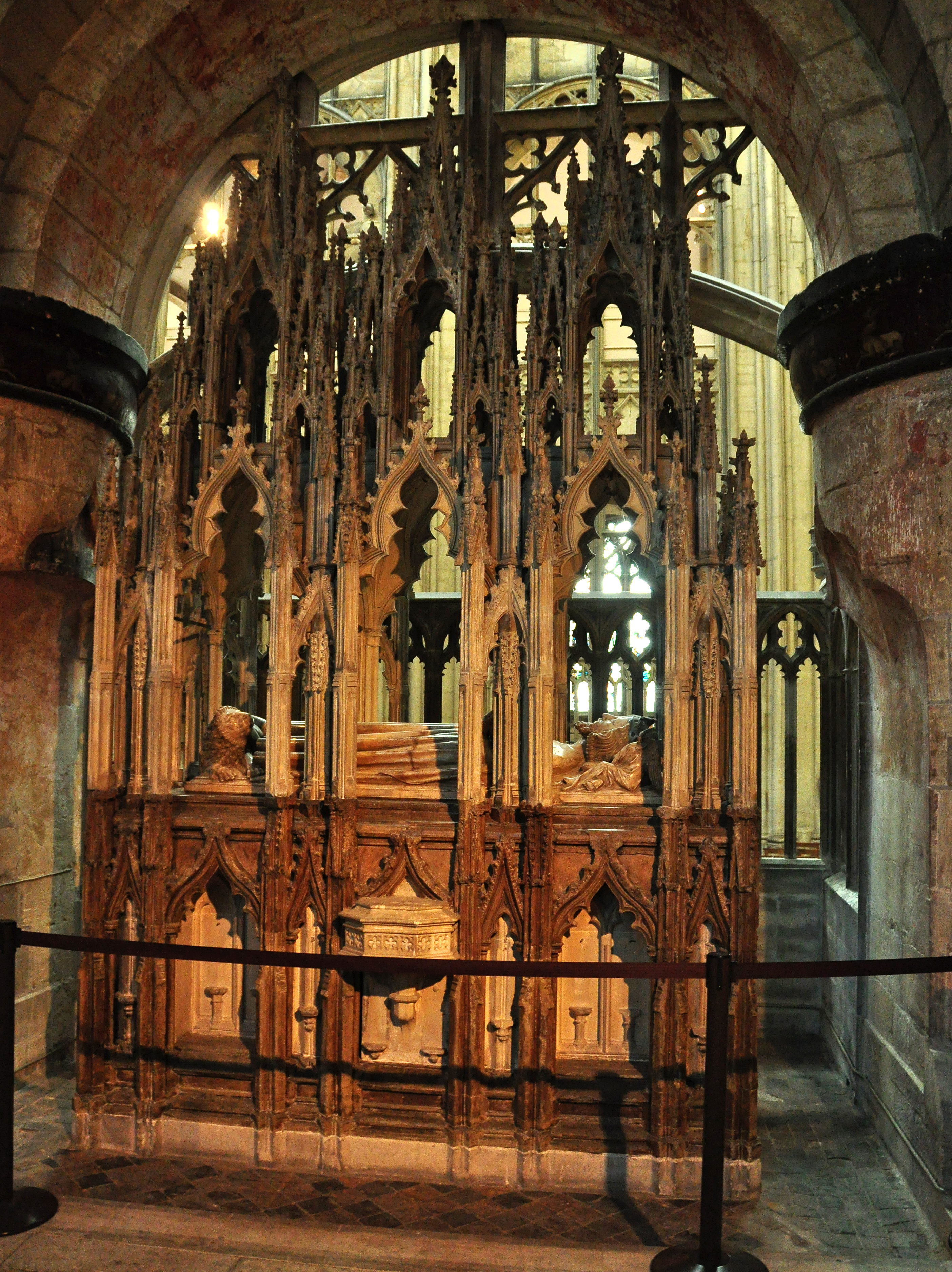 The tomb of King Edward II in Gloucester Cathedral.